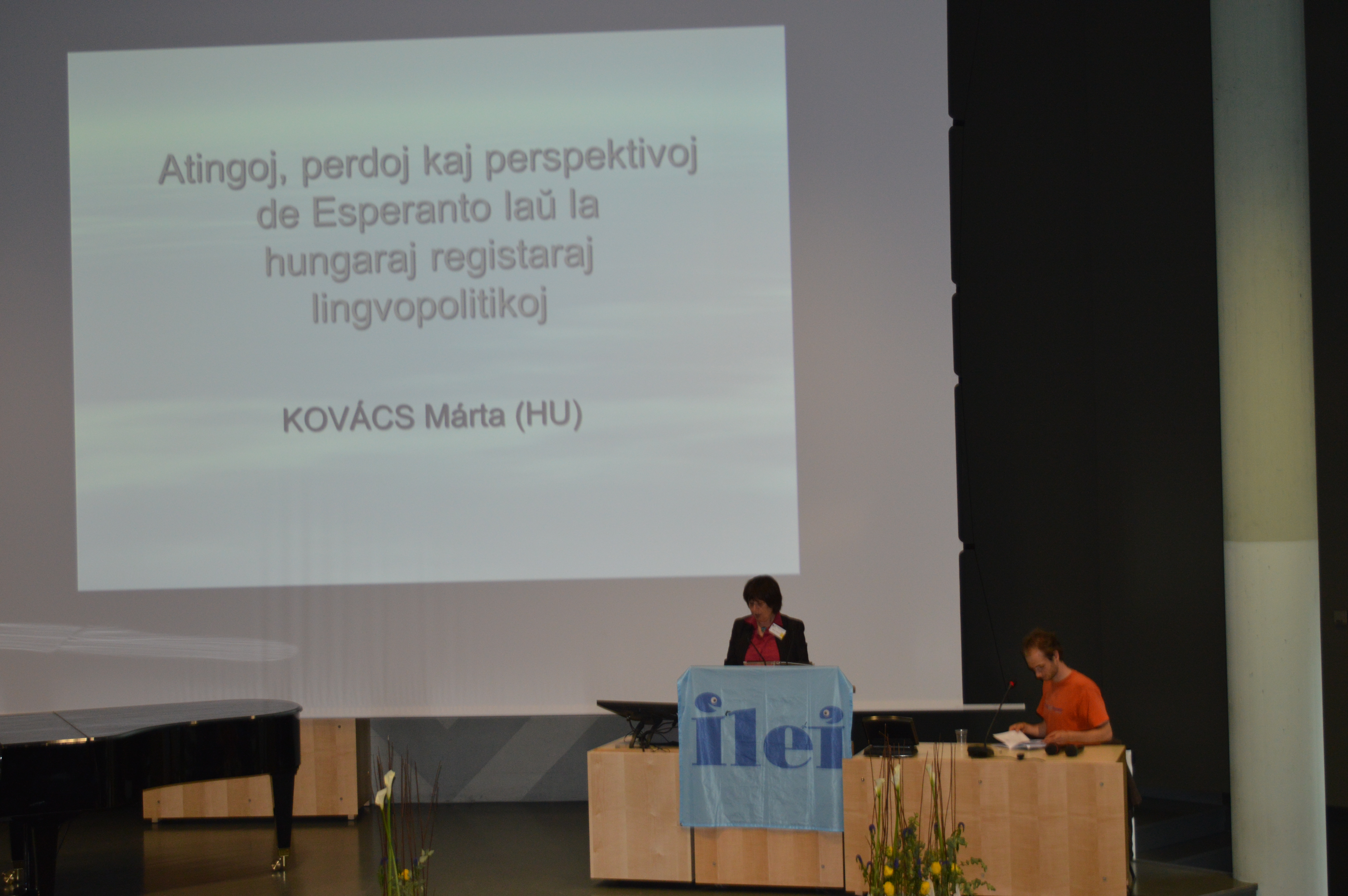 Márta Kovács speaks during the third international conference on Esperanto teachting, canton of Neuchatel, SwitzerlandEsperanto: Márta Kovács parolas dum la tria konferenco pri Esperanto-instruado, Neŭŝatelo, Svislando